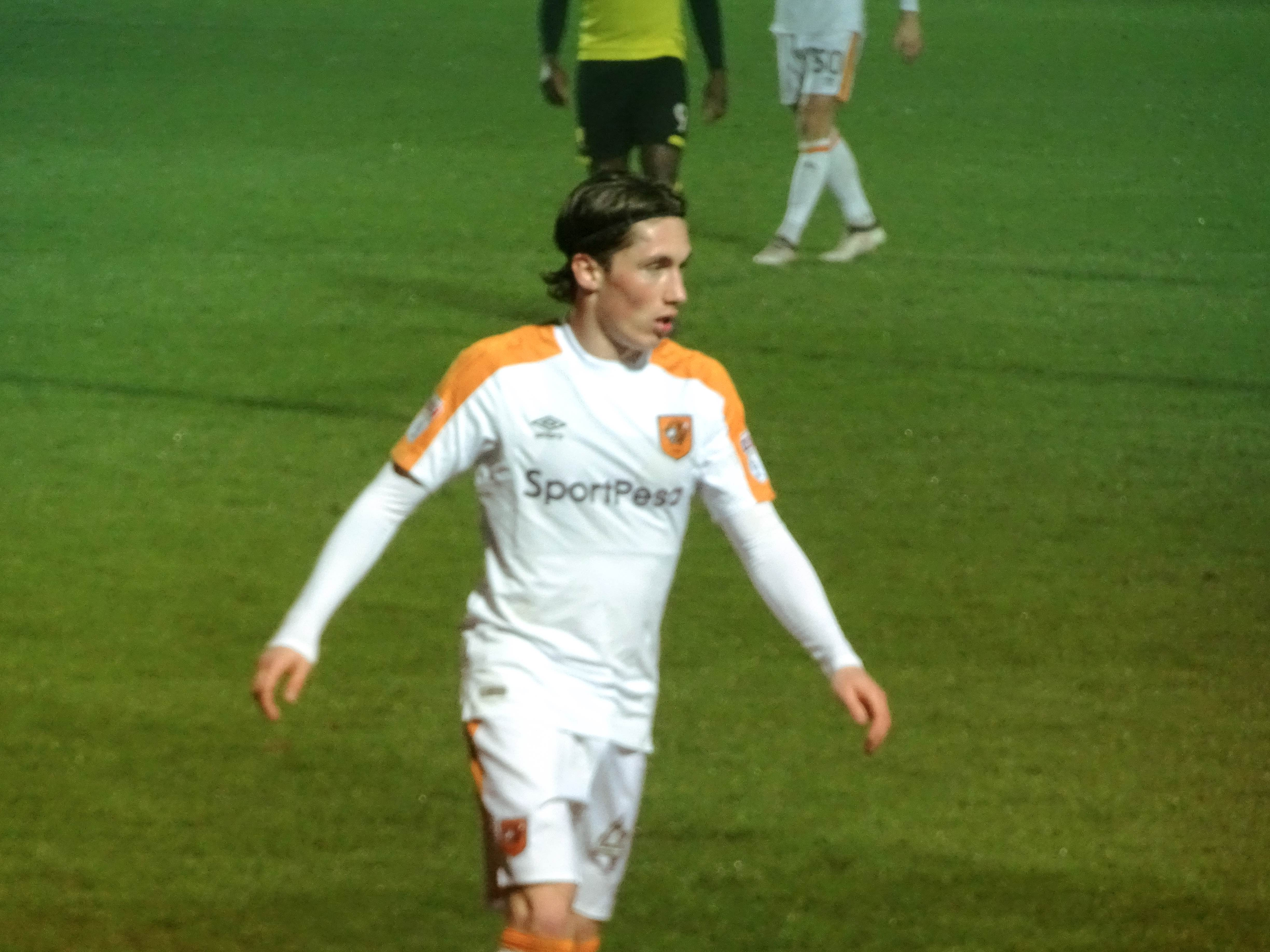 Harry Wilson